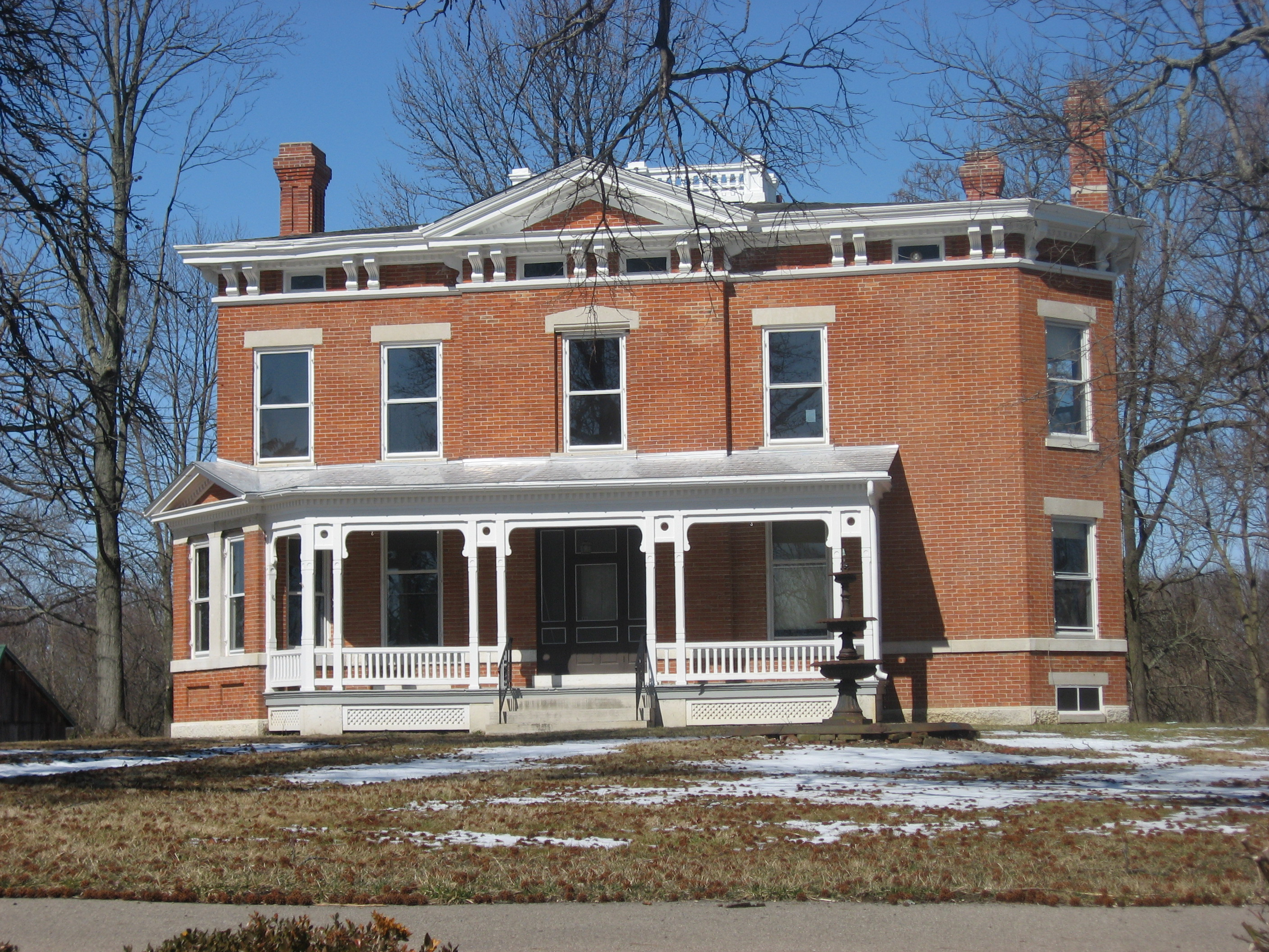 Front of the Ahimaaz King House, located at 1720 E. King Avenue at Kings Mills in Deerfield Township, Warren County, Ohio, United States. Built in 1885 according to a Samuel Hannaford design, it is listed on the National Register of Historic Places.